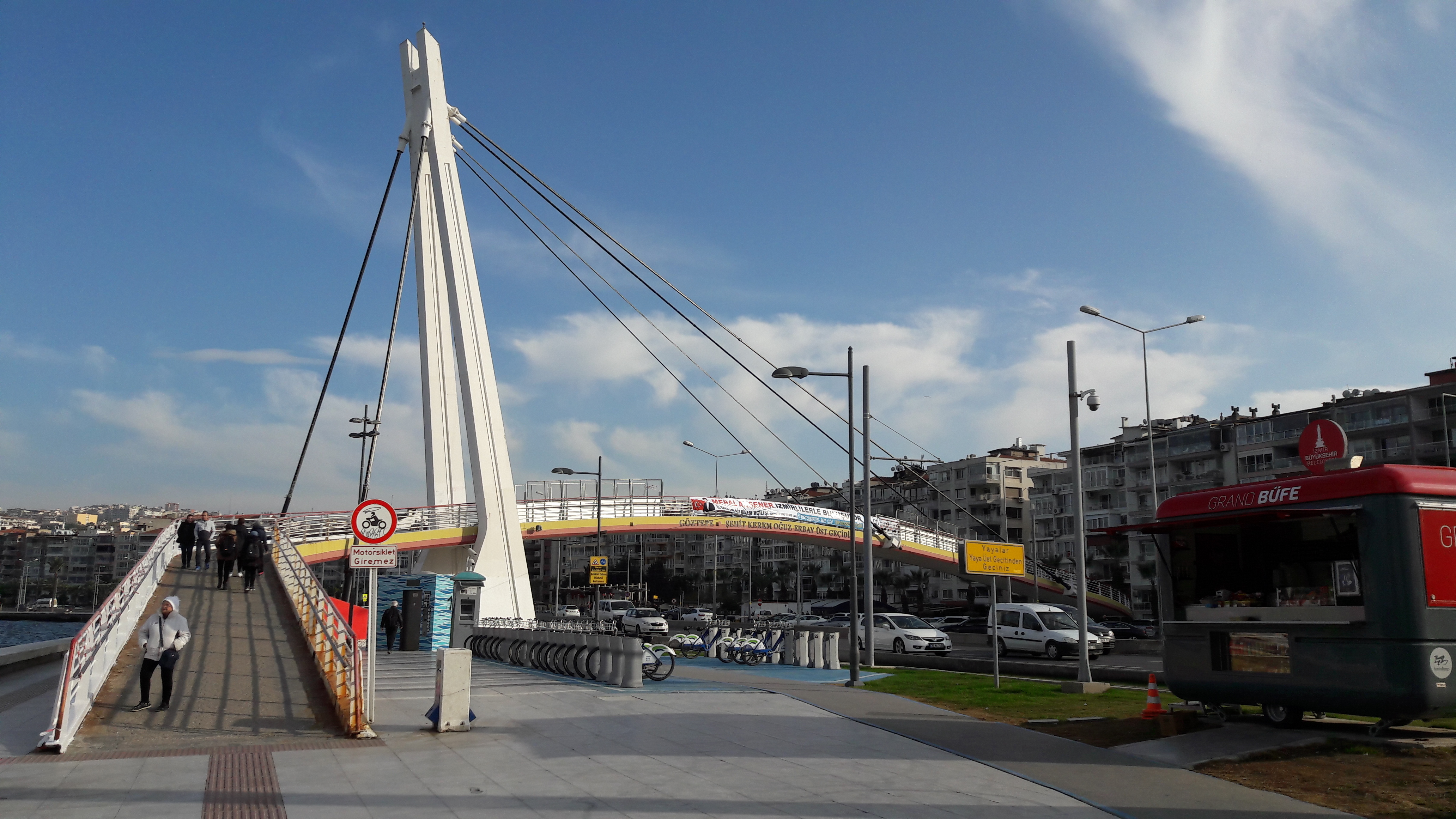 The Göztepe Sehit Kerem Oguz Erbay overpass.